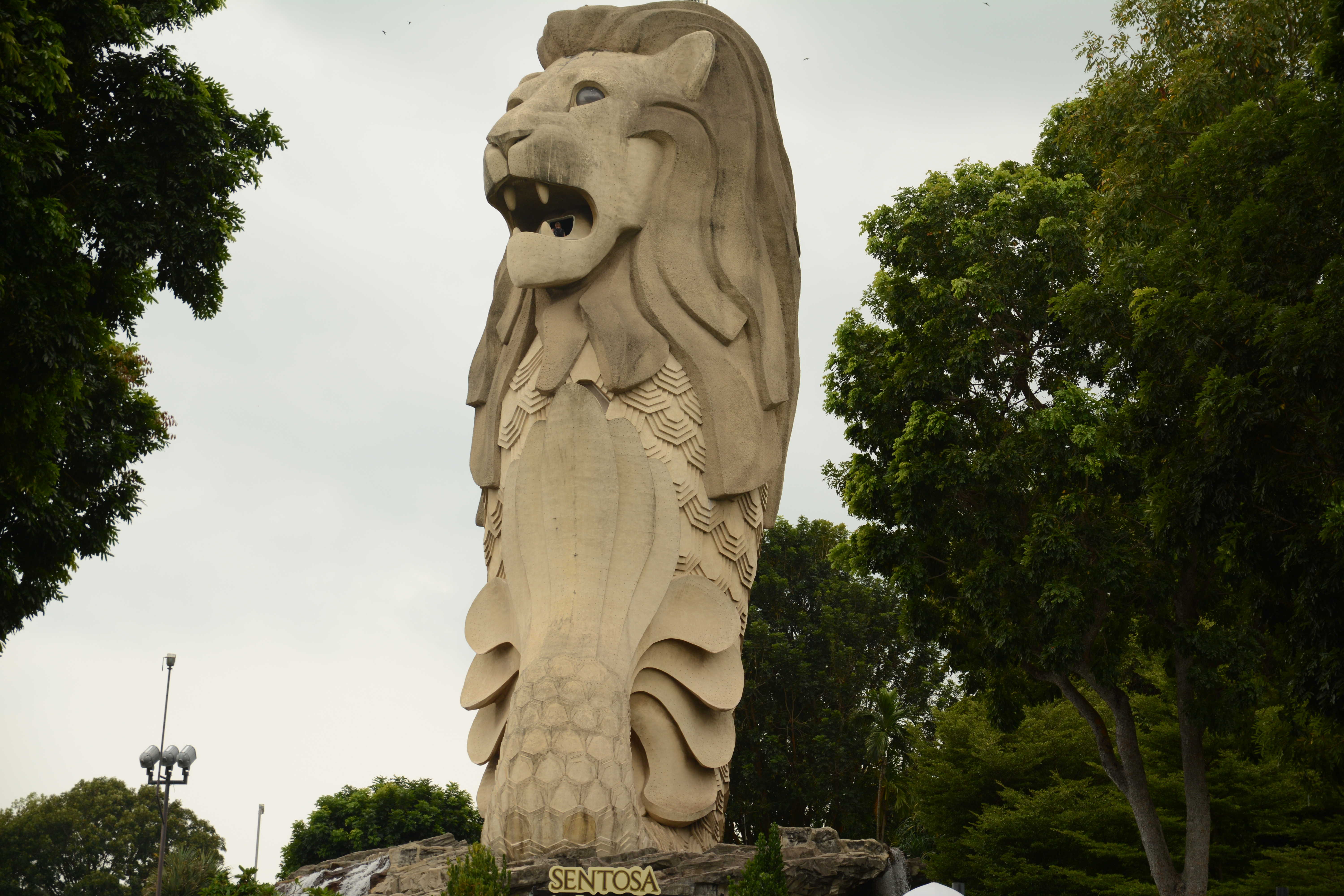 The Merlion statute at Sentosa, Singapore.